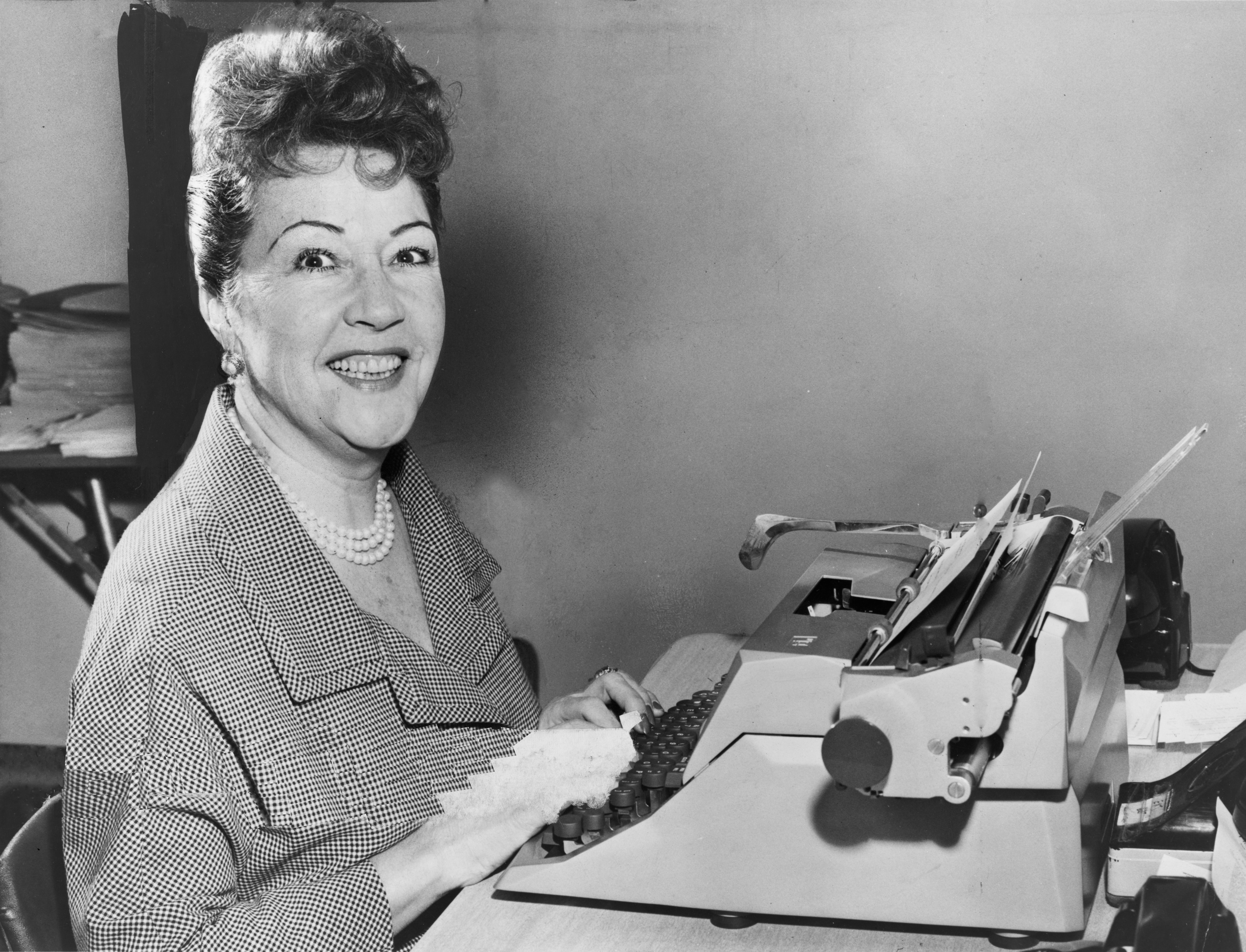 "Ethel Merman still has the touch" / World-Telegram photo by Walter Albertin.